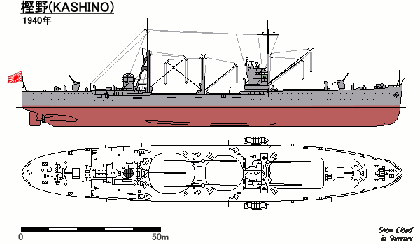 Figure of Japanese special cargo ship "Kashino" in 1940.